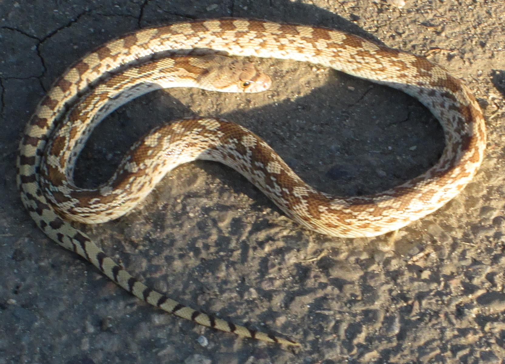 A baby Sonoran gopher snake lying in the sun along the road in Sahuarita, Arizona. Probably about 1.5 feet in length. December 11, 2013